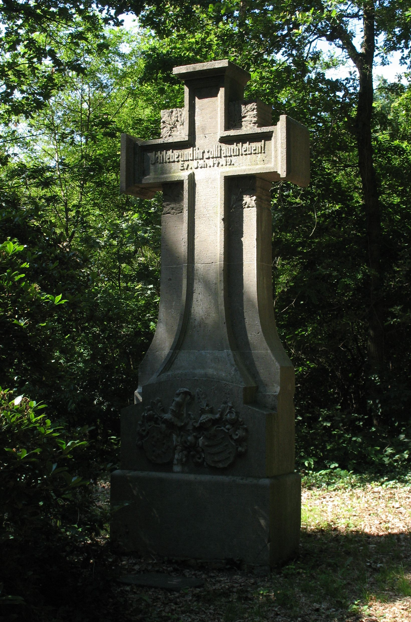 Grave of Friedrich Ludwig von Rochow-Plessow in Krahne (municipality Kloster Lehnin) in Brandenburg, Germany